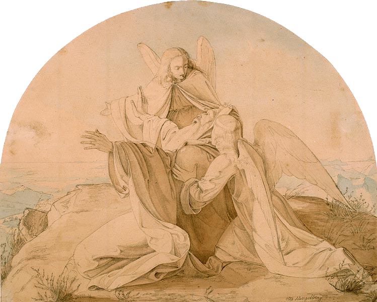 Tod Mosis